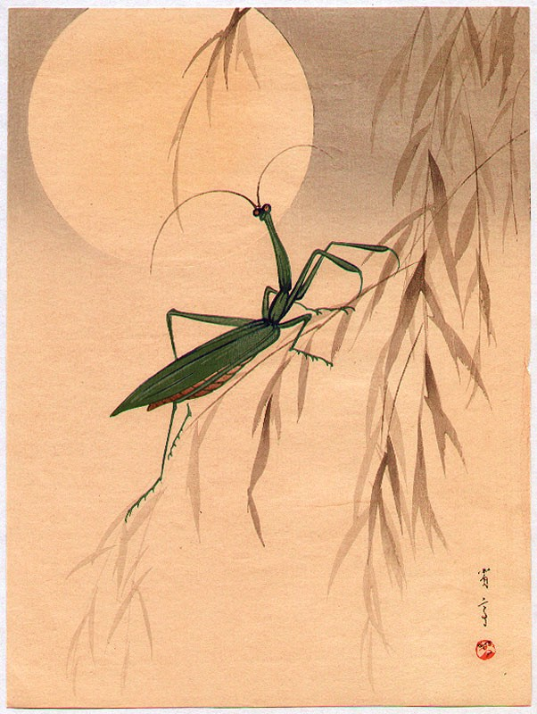 Praying Mantis and the Moon